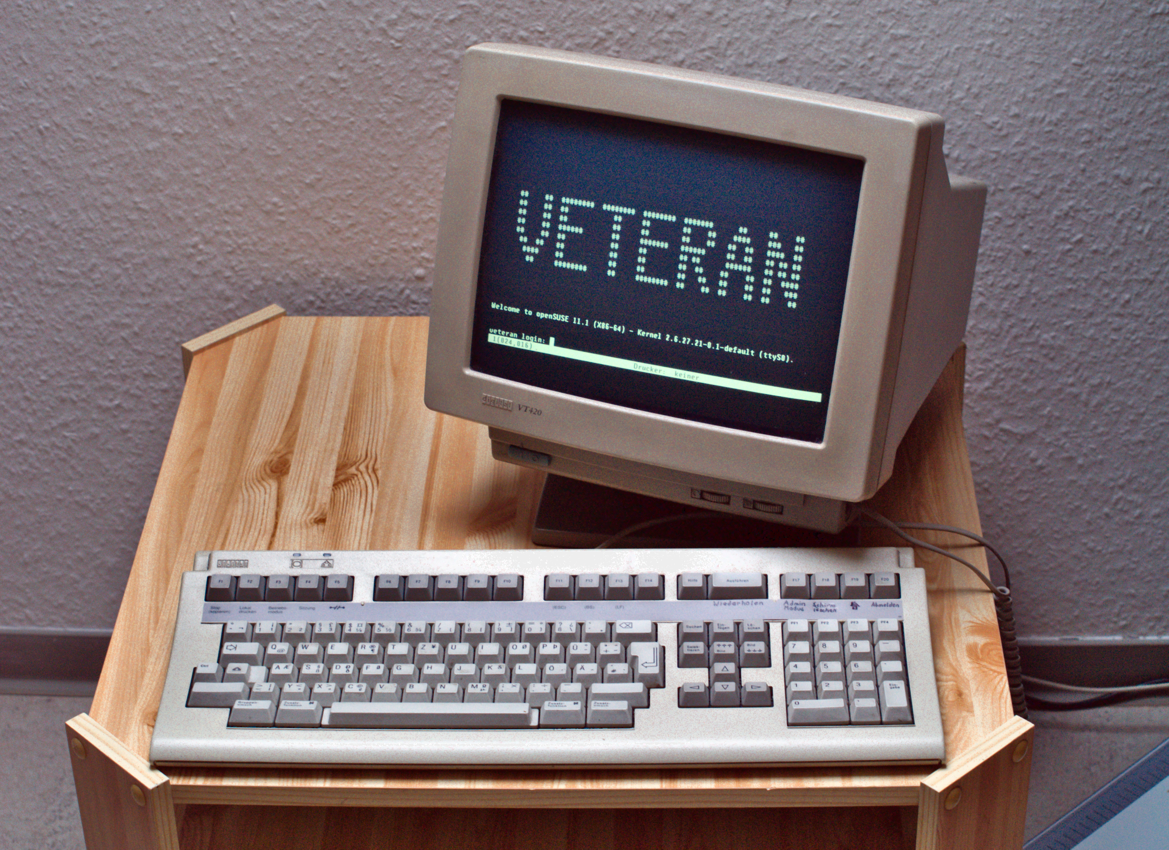 A VT420 terminal made by the Digital Equipment Corporation (DEC) in 1989 with German LK401 keyboard displaying the login screen of a Linux PC named "veteran"